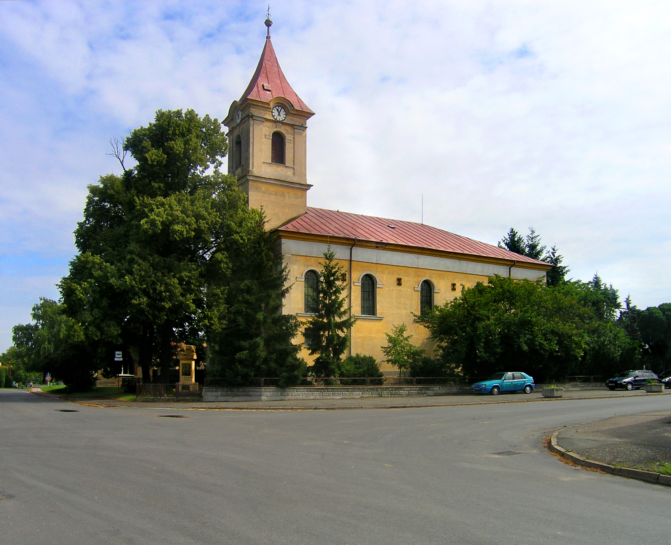 Church in Ohaře, Czech Republic